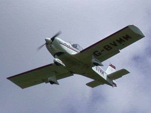 Robin HR200/100 G-BVMM approaching Cambridge (UK) Airport